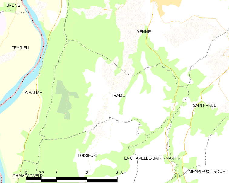 Map of French municipality Traize